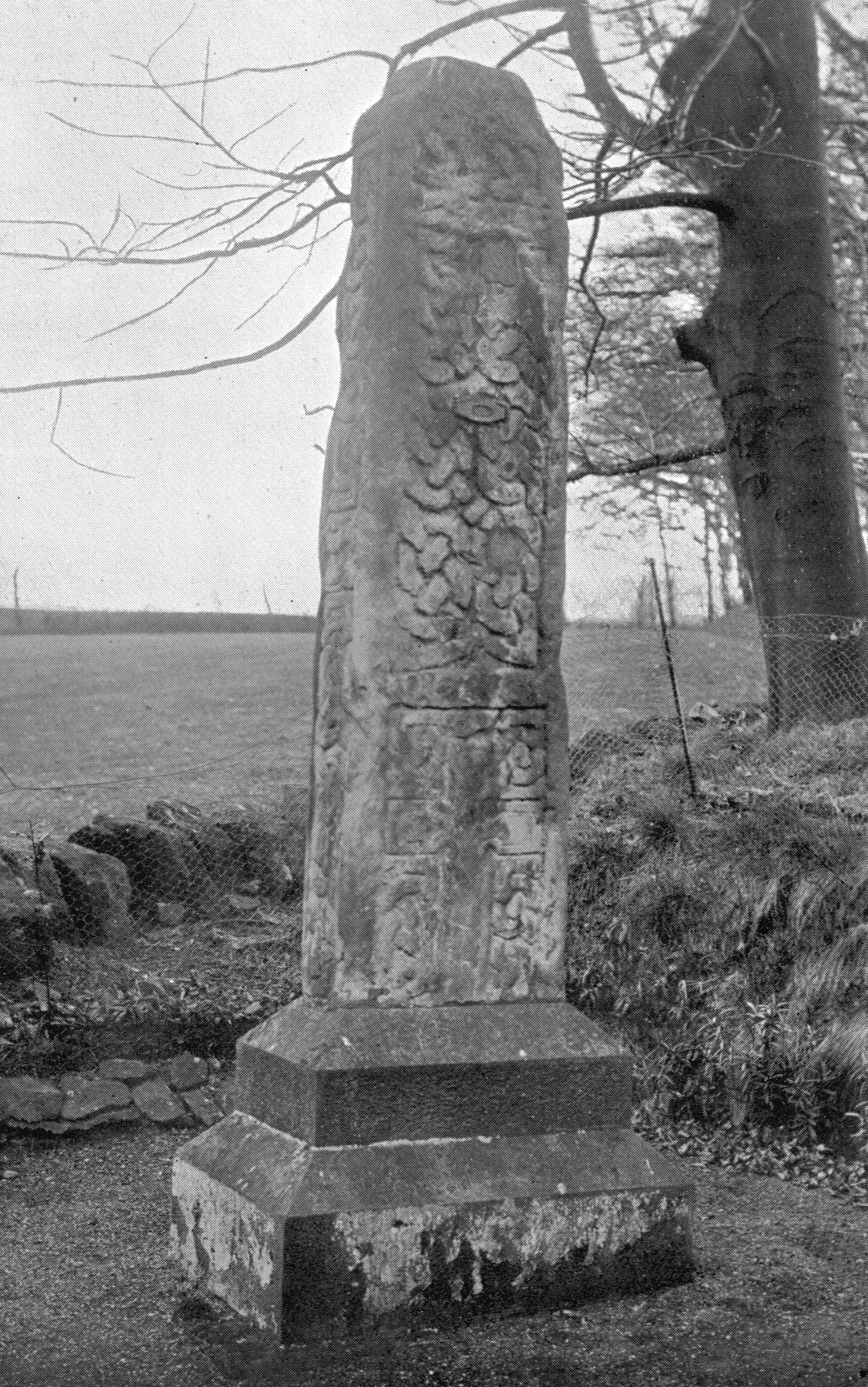 Arthurlie Celtic Cross. Arthulie in Renfrewshire, Scotland.